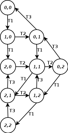 This is the reachability graph of the Petri net "Image:Animated_Petri_net_commons.gif", if the Petri net is to be viewed as a bounded net where boundedness=2. This work of art( :-) ) has been created with Dia GPL program, by me, User:Msoos. It should be used in conjuction with the image mentioned above, as it illustrates the reachability of Petri nets.